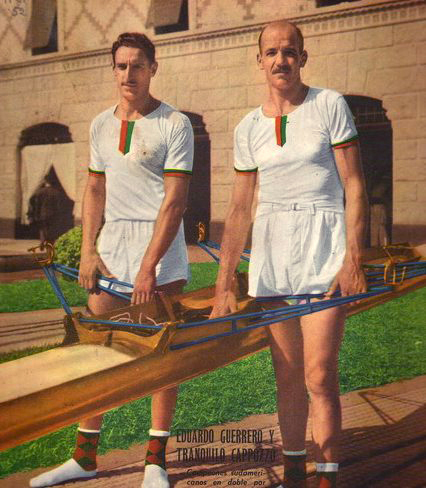 Eduardo Guerrero y Tranquilo Capozzo, after winning the Olimpic Games of Helsinki, in 1952.